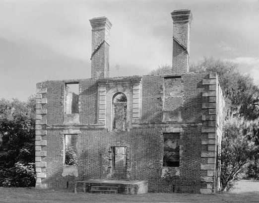 Paul Hamilton House (Ruins), Russell Creek, Edisto Island, Charleston County, SC aka Brick House Ruins (cropped)